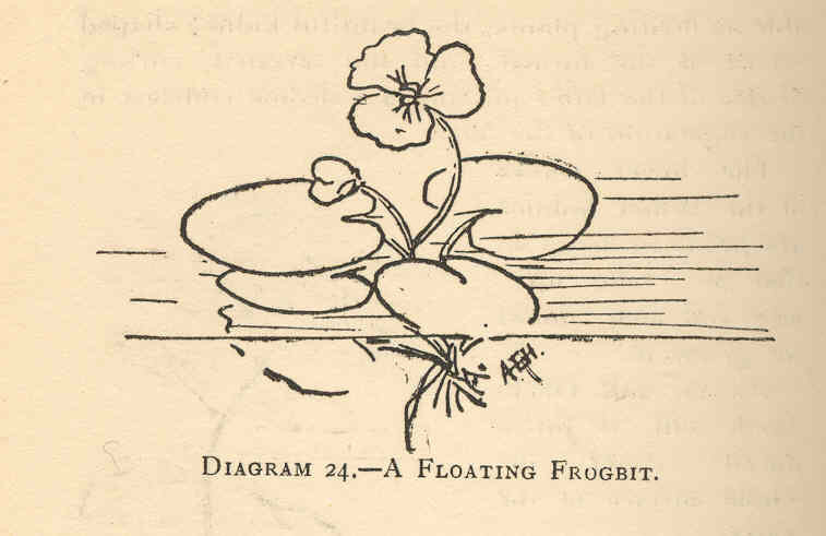 Floating Frugbit Subject: Frugbit Tag: Aquatic Botany